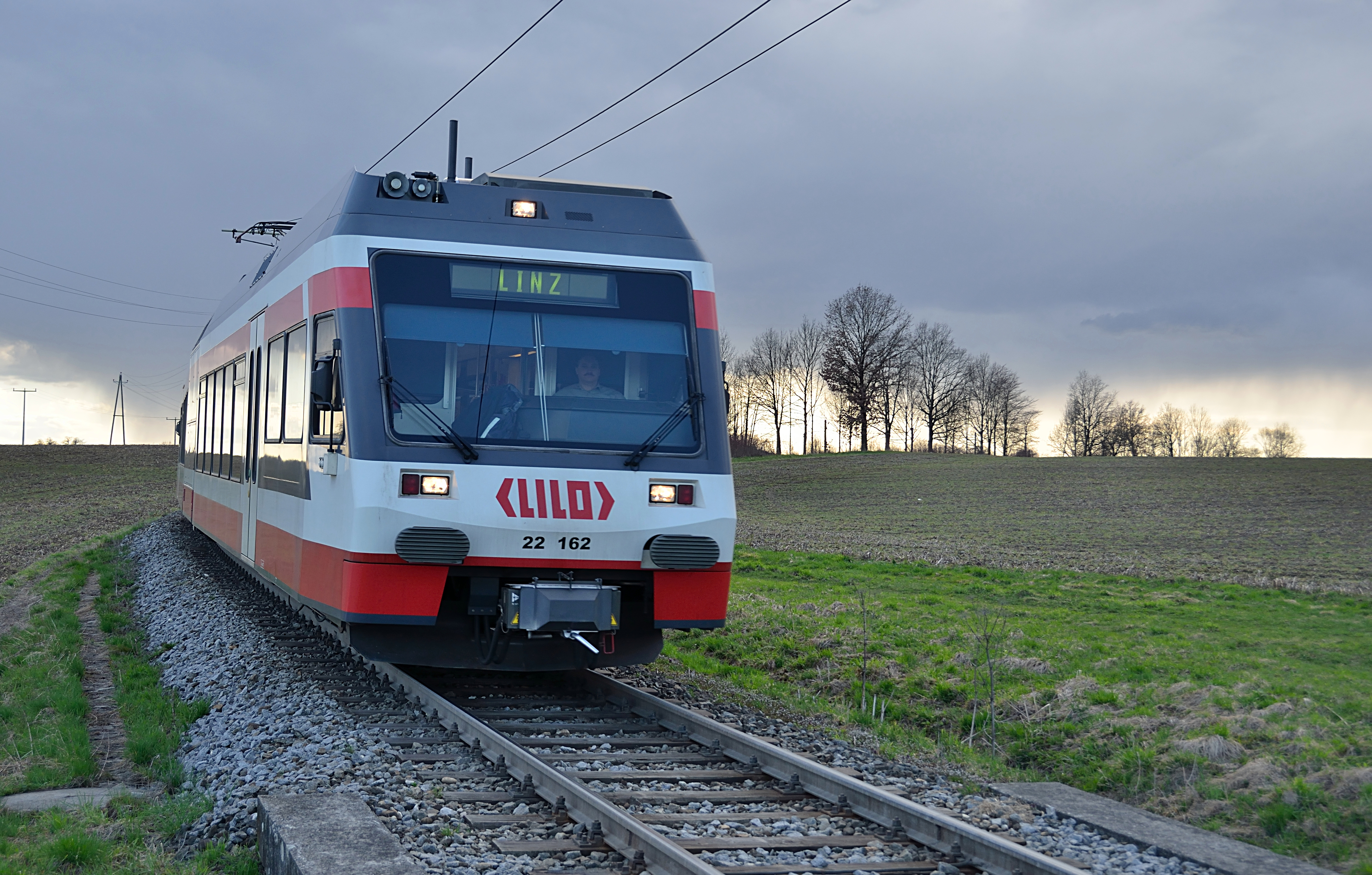 Train station Thurnharting in municipality of Pasching, Upper Austria.